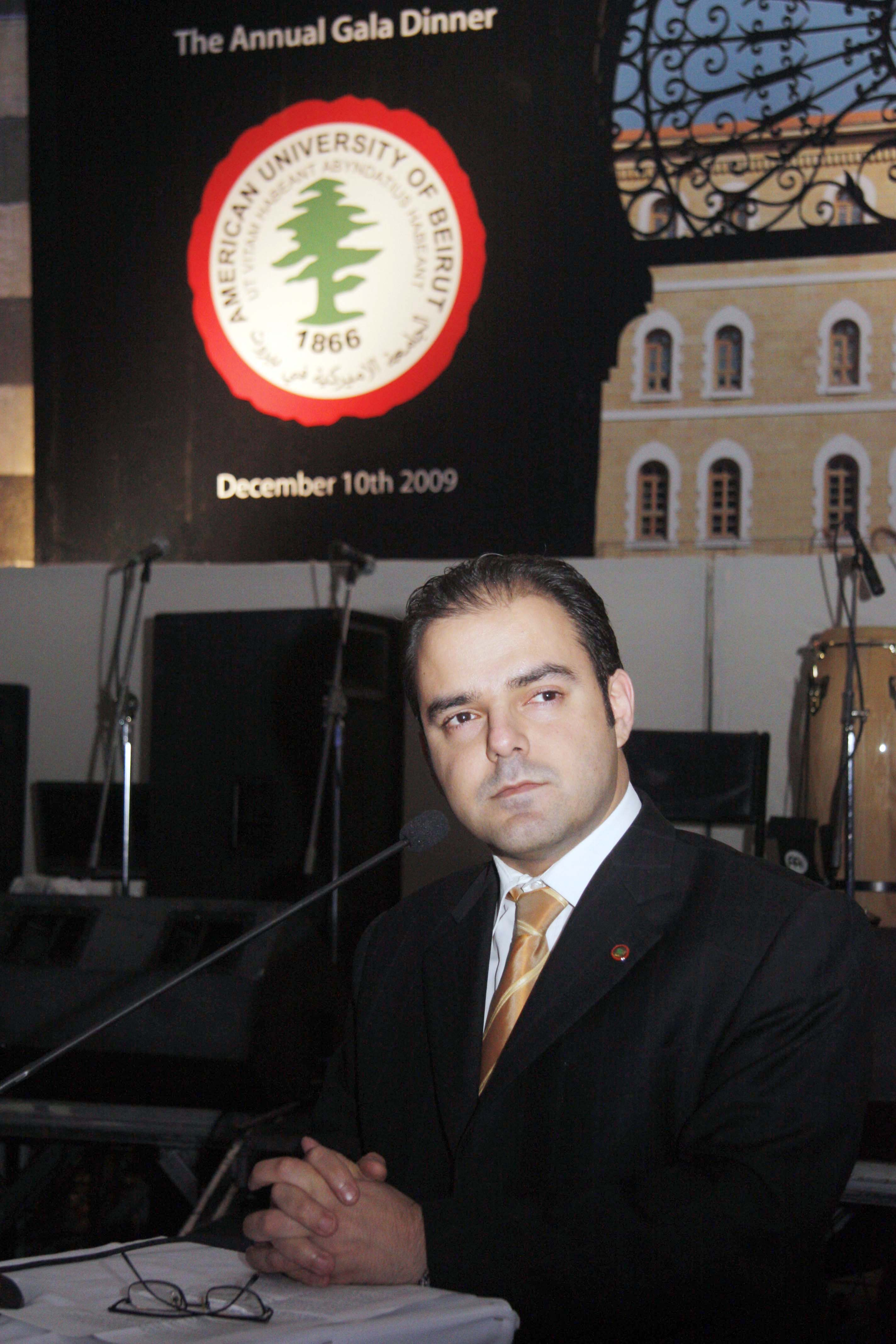 Sami Moubayed, president of the Damascus Chapter of the AUB Alumni Association, in Khan Asaad Pasha - Damascus, December 2009